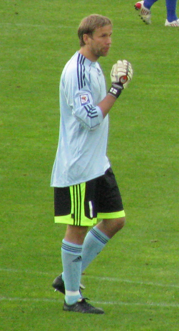 Jussi Jääskeläinen